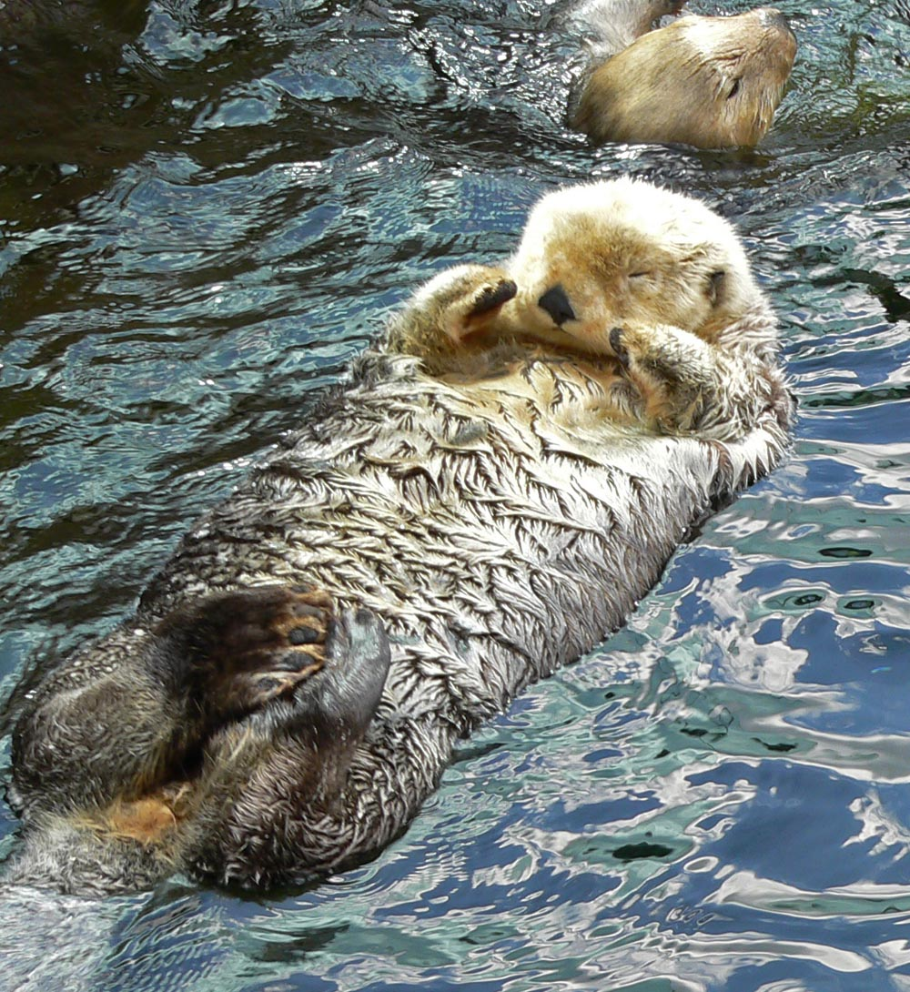 Photo of sleeping Enhydra lutris (sea otter) at the Vancouver Aquarium